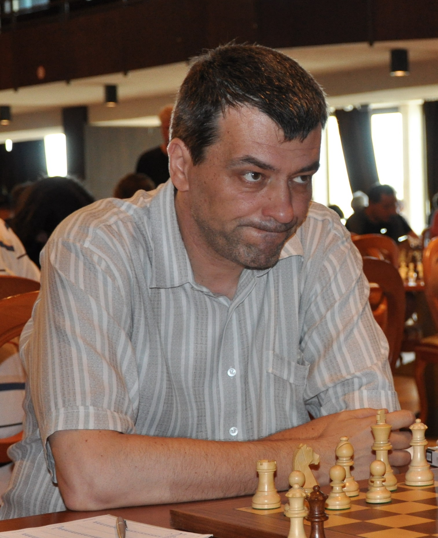 GM Robert Zelcic, Pula Open 2011.